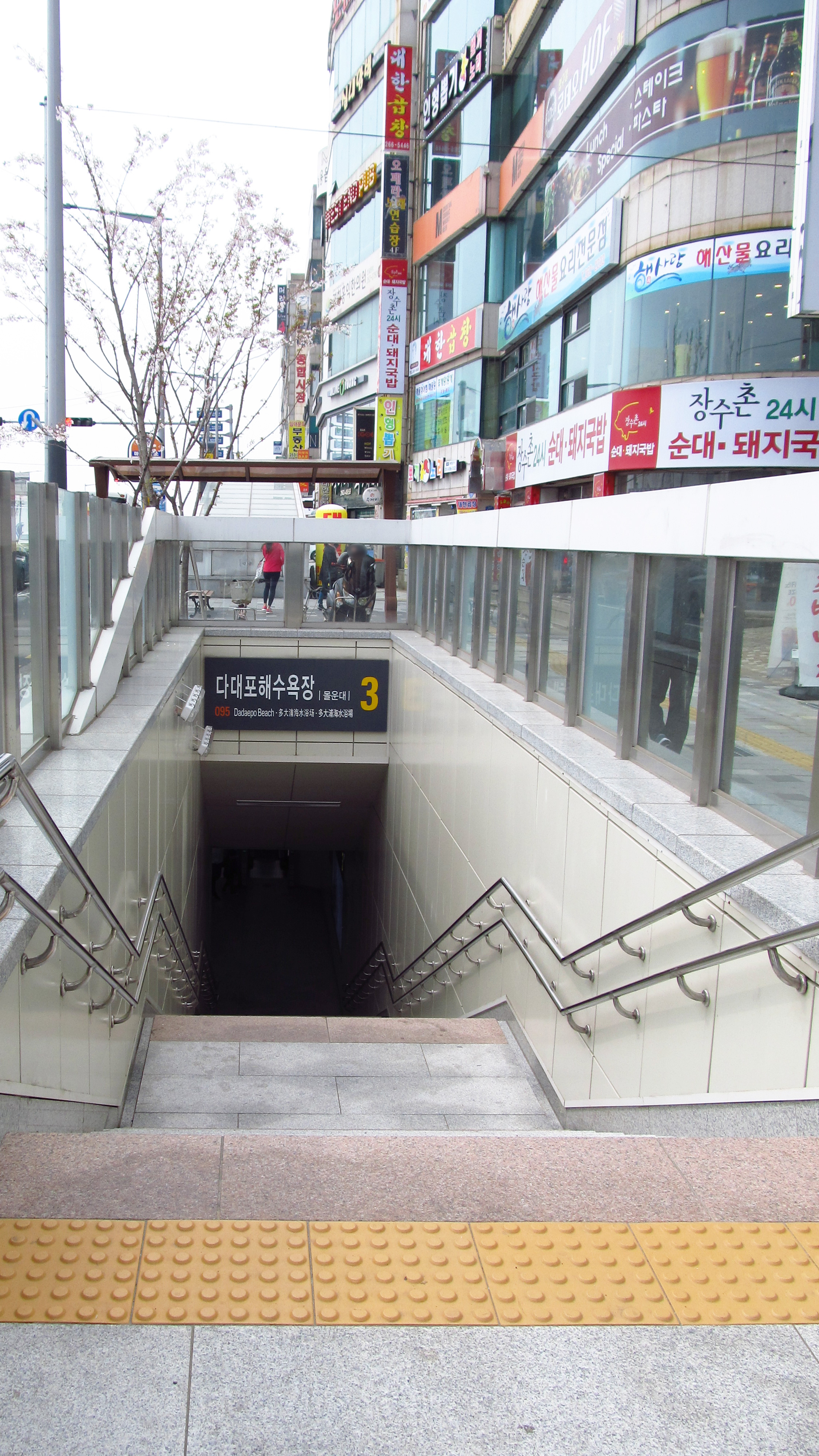 The no.3 entrance to Dadaepo Beach Station on the Busan Subway Line 1 in Saha-gu, Busan, Republic of Korea(South Korea)